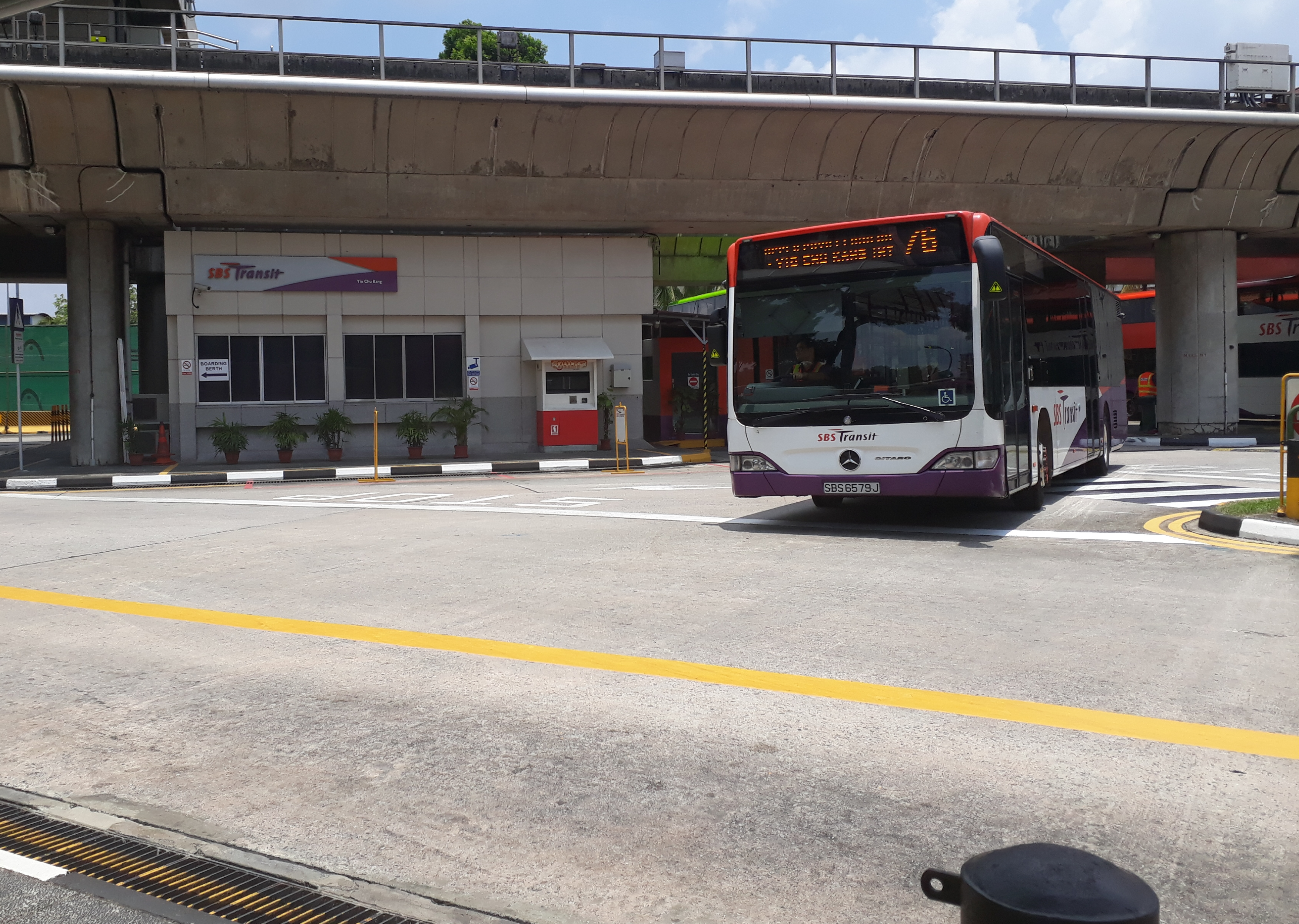 Yio Chu Kang Bus Interchange